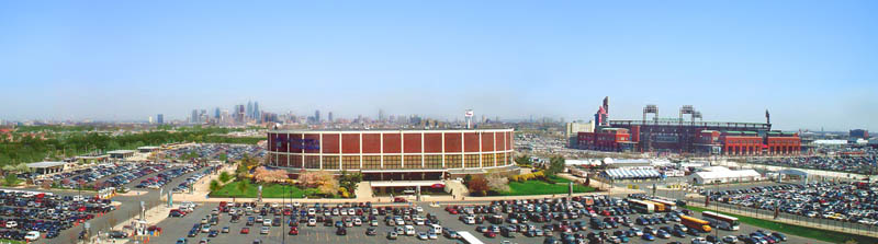 Panoramic view of the Spectrum and Citizens Bank Park at the Philadelphia "Sports Complex" with the city's skyline in the background as seen from the Wachovia Center. (Composite image by Bruce C. Cooper, )